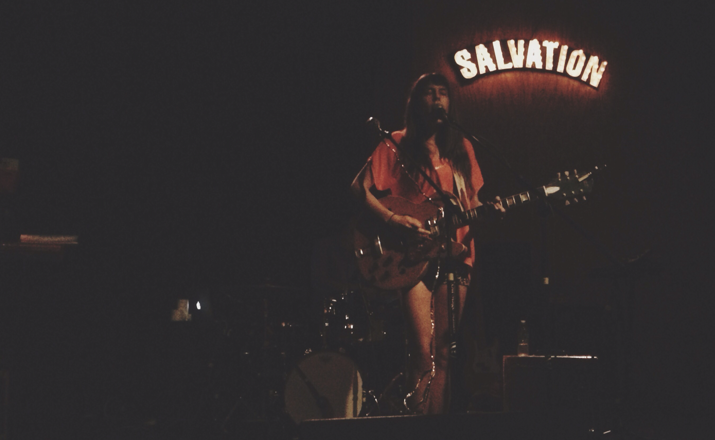 Musician Madi Diaz, performing at Silverlake Lounge, 2014